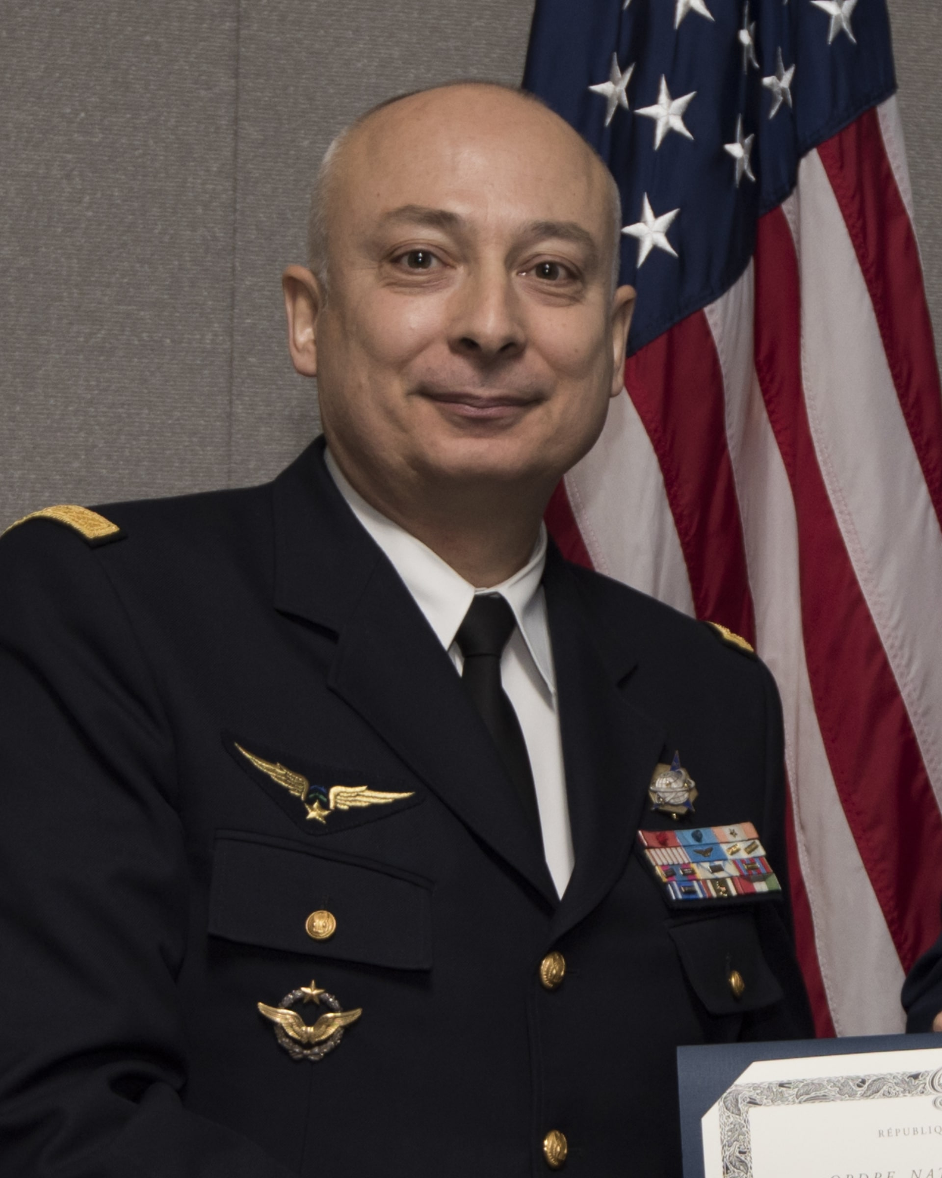 French Air Force Brigadier General Jean-Pascal Breton, Commander of French Joint Space Command, presents the French Order of Merit to U.S. Air Force Gen. Jay Raymond, Commander of Air Force Space Command, at Peterson Air Force Base, Colorado, April 16, 2018. The President of France named Raymond an Officer in the French National Order of merit for his contributions to French and American military cooperation. (U.S. Air Force photo by Dave Grim)